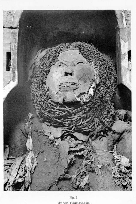 Mummy of Duathathor-Henuttawy, queen of Pinedjem during the Beginning of the 21st dynasty. Found in DB320.